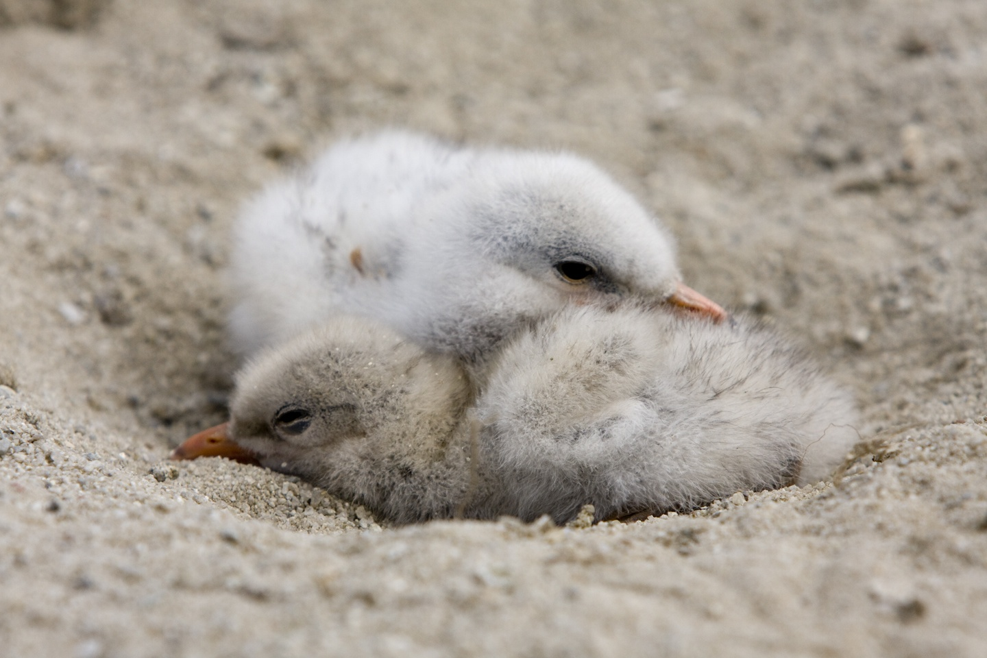 Elegant Tern chicks at South Bay Salt Works, Port of San Diego, San Diego, USA.